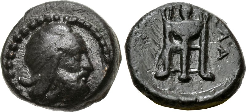 IONIA, Achaemenid Period. Tiribazos. Satrap of Lydia, 388-380 BC